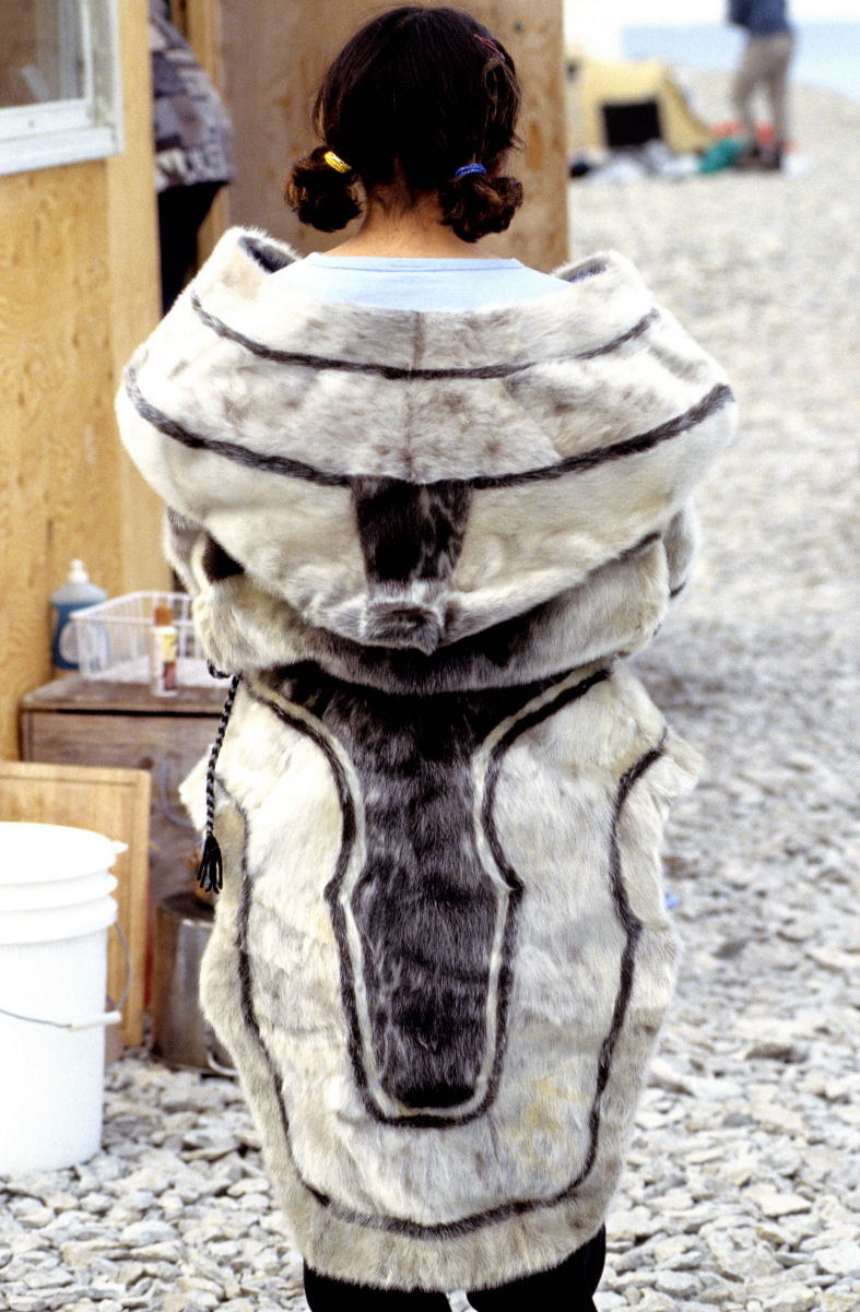 Traditional Inuit clothing in Iglulik: Amautiq of bearded seal fur